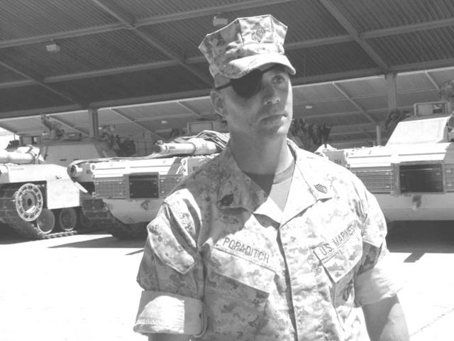 Gunnery Sergeant Nick Popaditch co-wrote the book ‘Once a Marine: An Iraq War Tank Commander’s Inspirational Memoir of Combat, Courage and Recovery.’ The ‘Cigar Marine’ was injured when he was hit by a rocket propelled grenade during Operation Iraqi Freedom in April 2004.